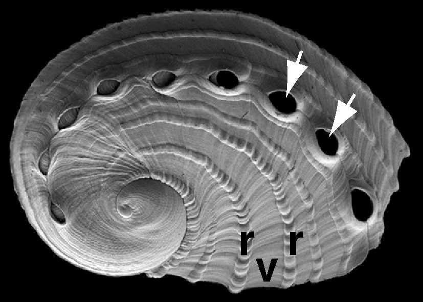 A scanning electron microscopy (SEM) micrograph showing of the shell of juvenile Haliotis asinina. The shell is 5 mm long. r - ridge v - valley white arrows - regularly spaced respiratory pores.